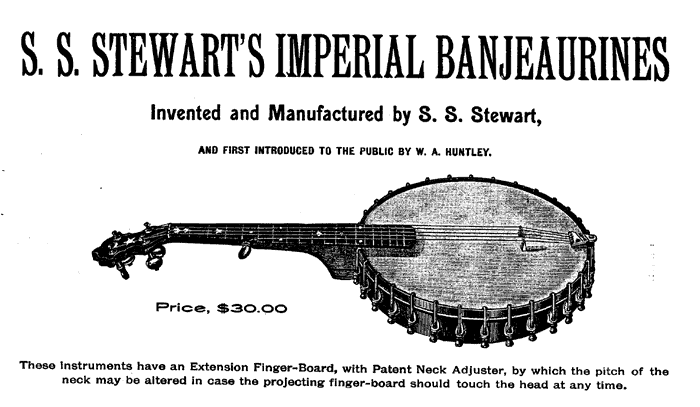 Page from S.S. Stewart catalog, illustrating their banjeaurine.